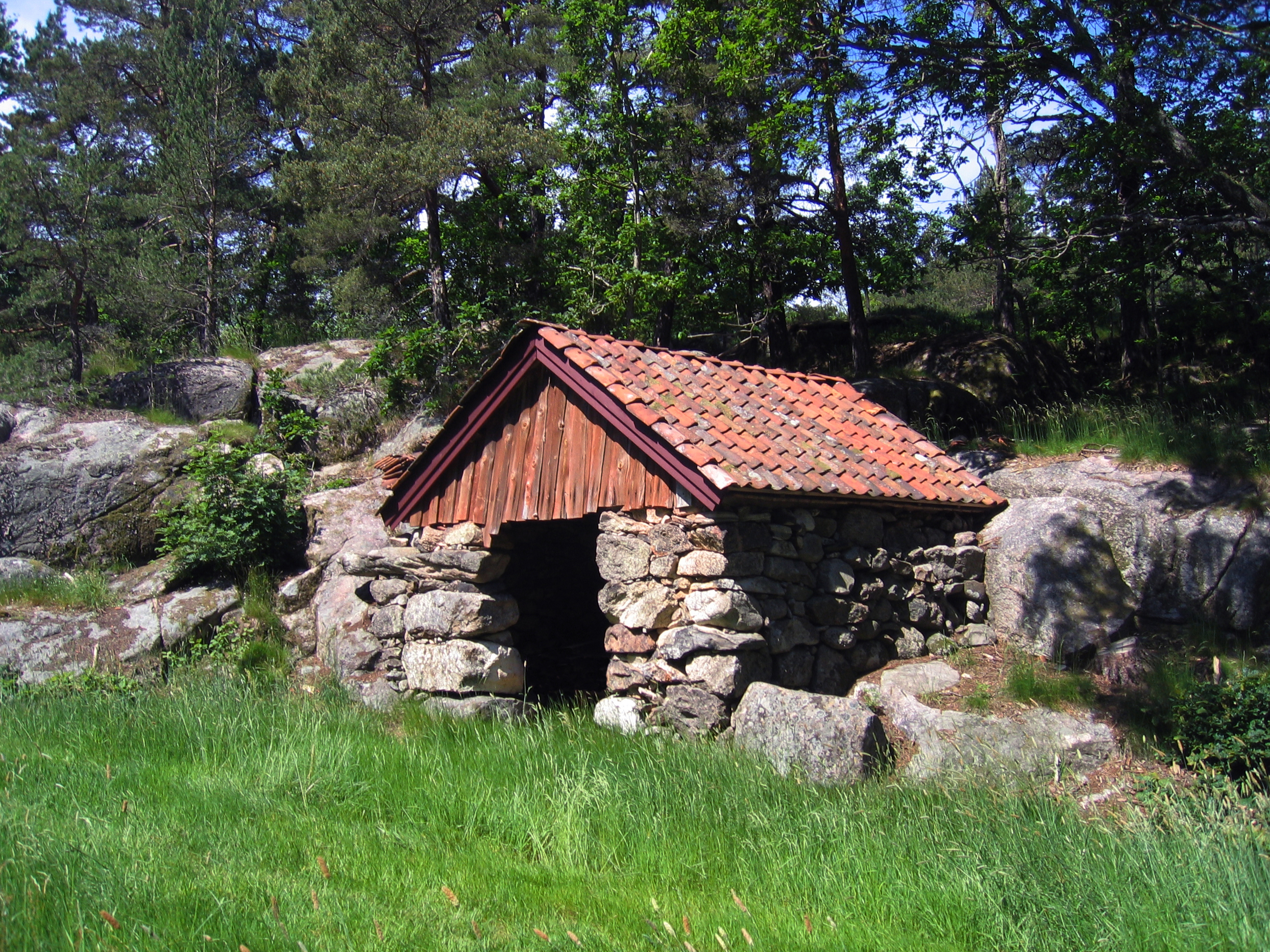 A small cowhouse for use in summer, in norwegian a "summer-cowhouse". The cows used pastures in the outfields (the woodland), and the cowhouse was located in the fence between the outfield and the fields. Fertilizer for the fields was very important, moreover the guard agains bears hunting cows.